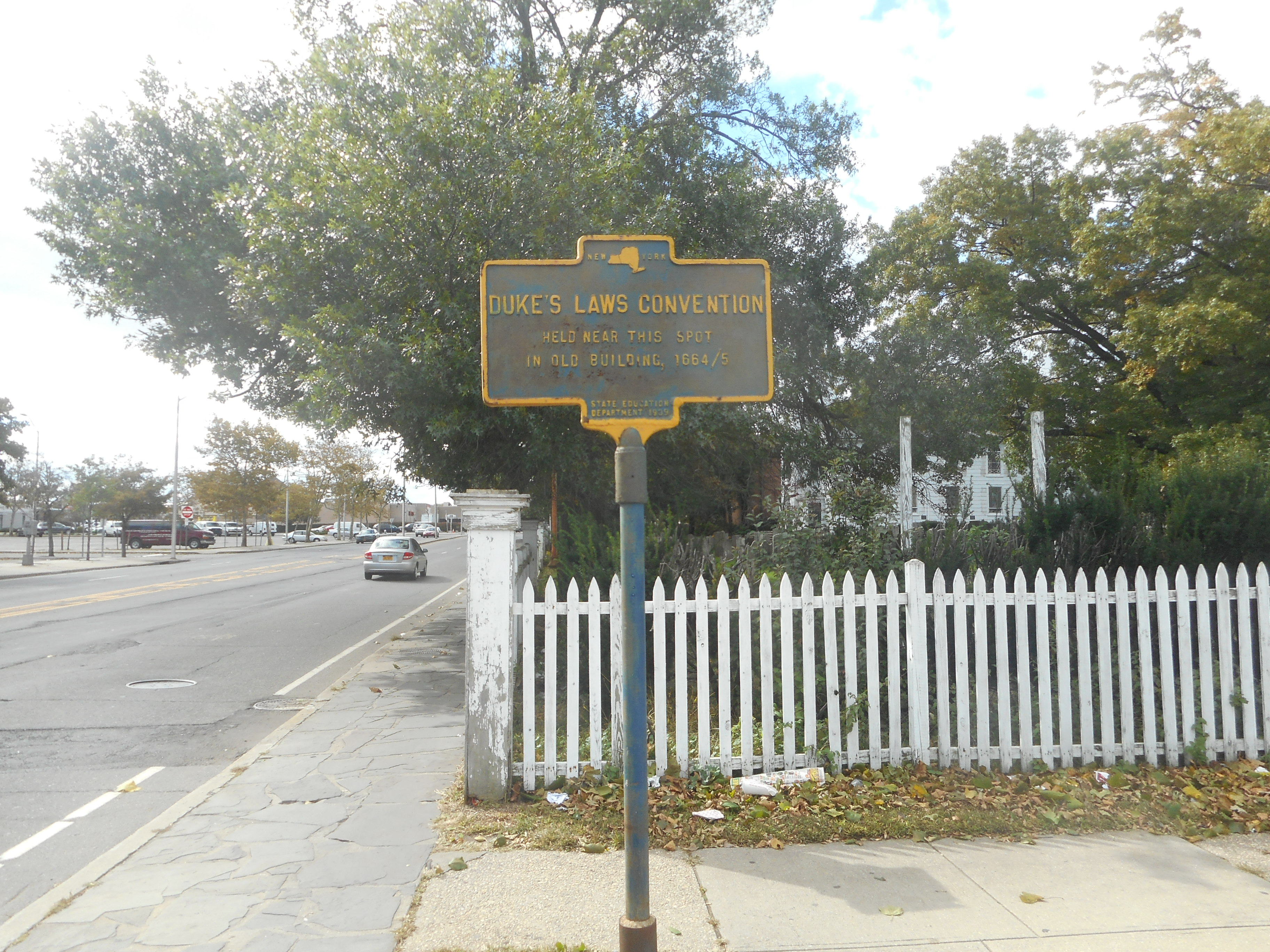 New York State Historical Marker on the northwest corner of Cooper Square East and Front Street (former NYS Route 102) in the Village of Hempstead, New York. The marker is at the site of the Duke's Laws Convention between 1664 and 1665, and the NRHP-listed Saint George's Episcopal Church is in the background.